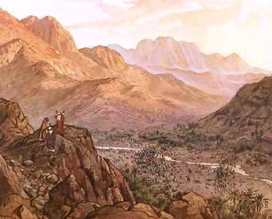 Battle of Raphidim by William Hole